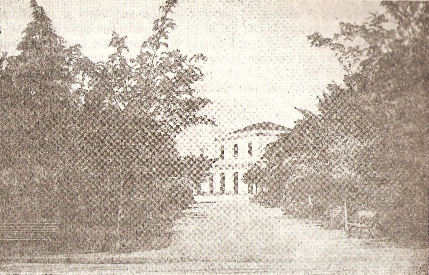 Olhão Public Park in 1920, in Portugal, with the railway station in the background.